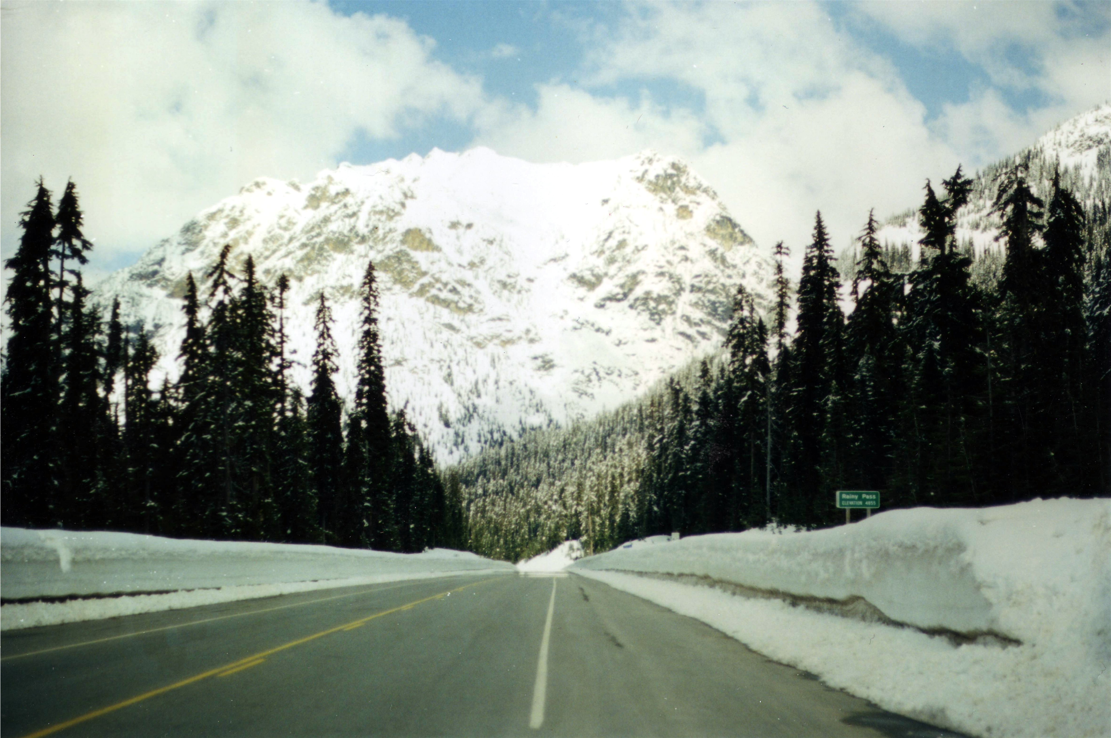 Rainy Pass in spring